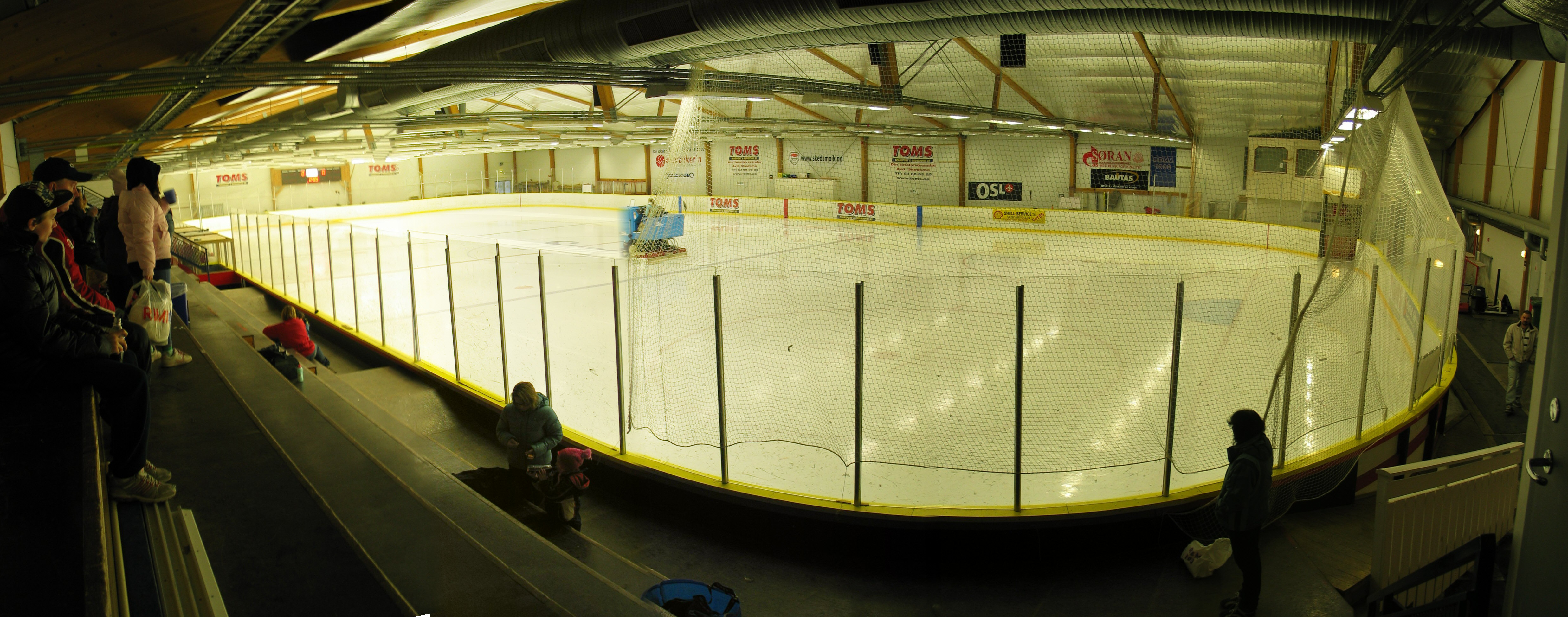 Indoor picture of a hockey hall in Skedsmo, Norway.